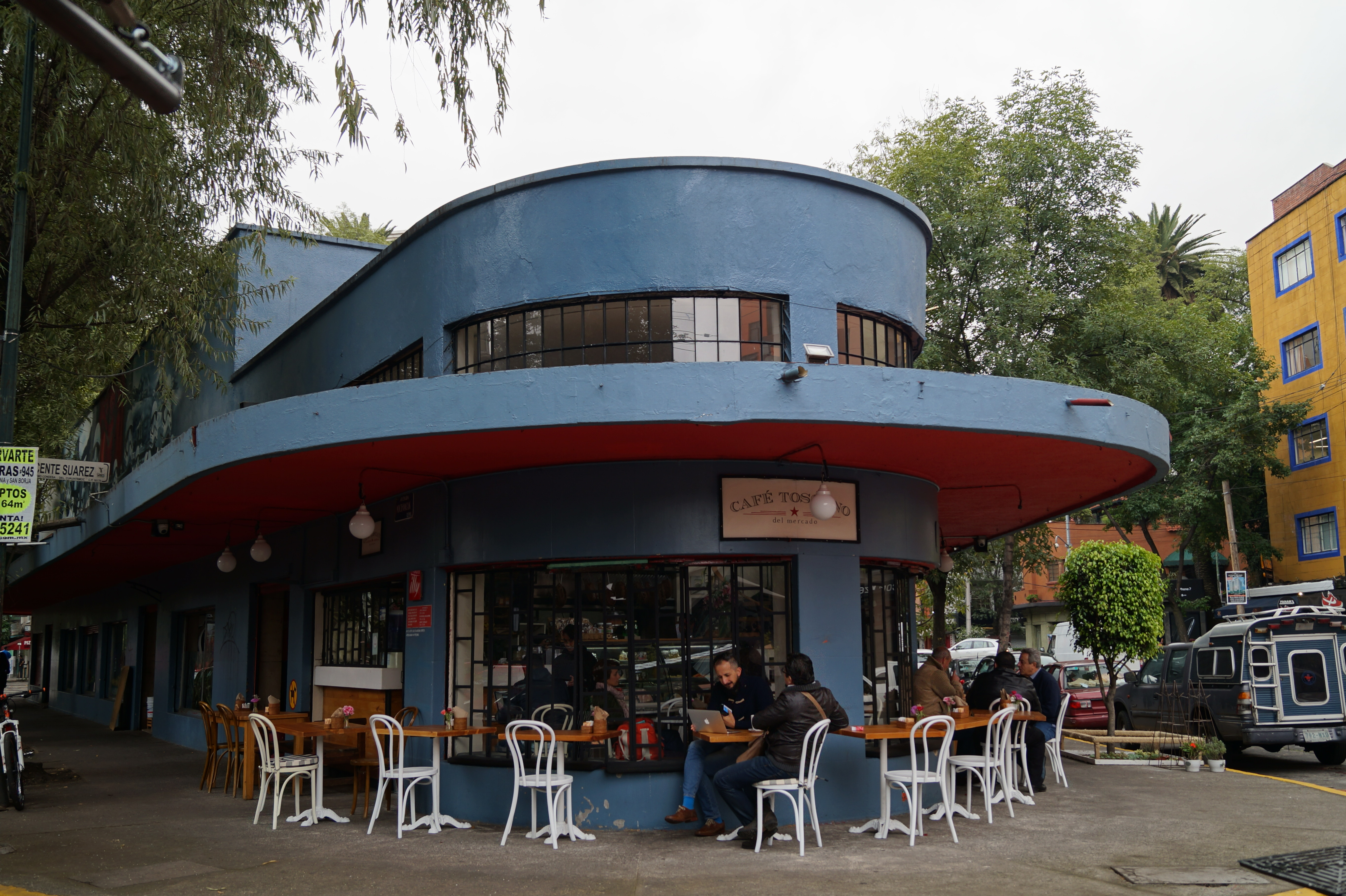 Café Toscano with blue facade on the corner of Michoacán Market, Colonia Condesa, Mexico.